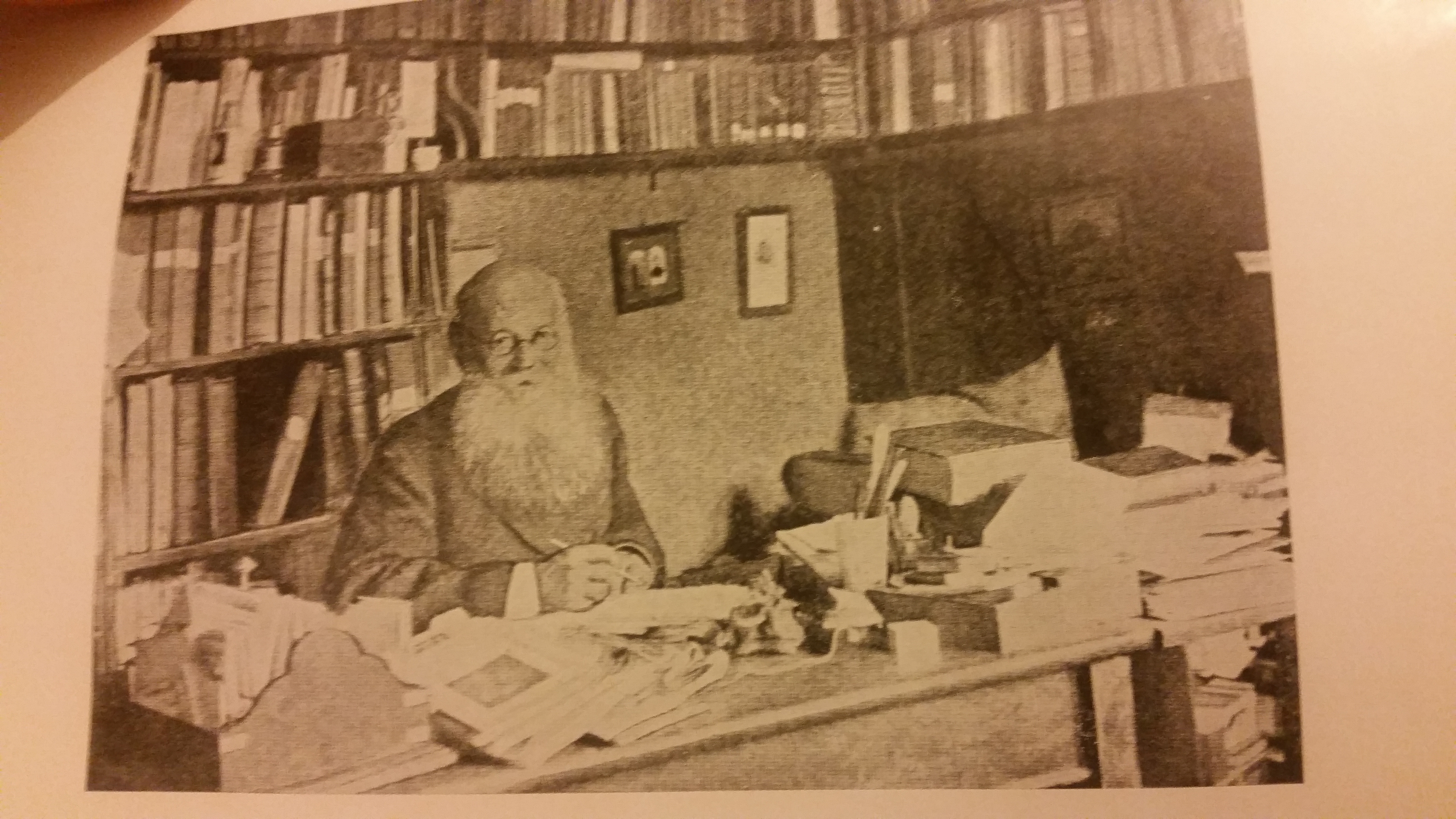 Piotr Kropotkin at his desk.